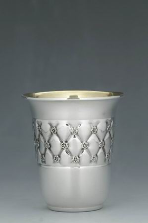 A Silver Kiddush Cup used for Kiddush on the Shabbat and Jewish holiday. This Kiddush Cup was made by Hadad Brothers.